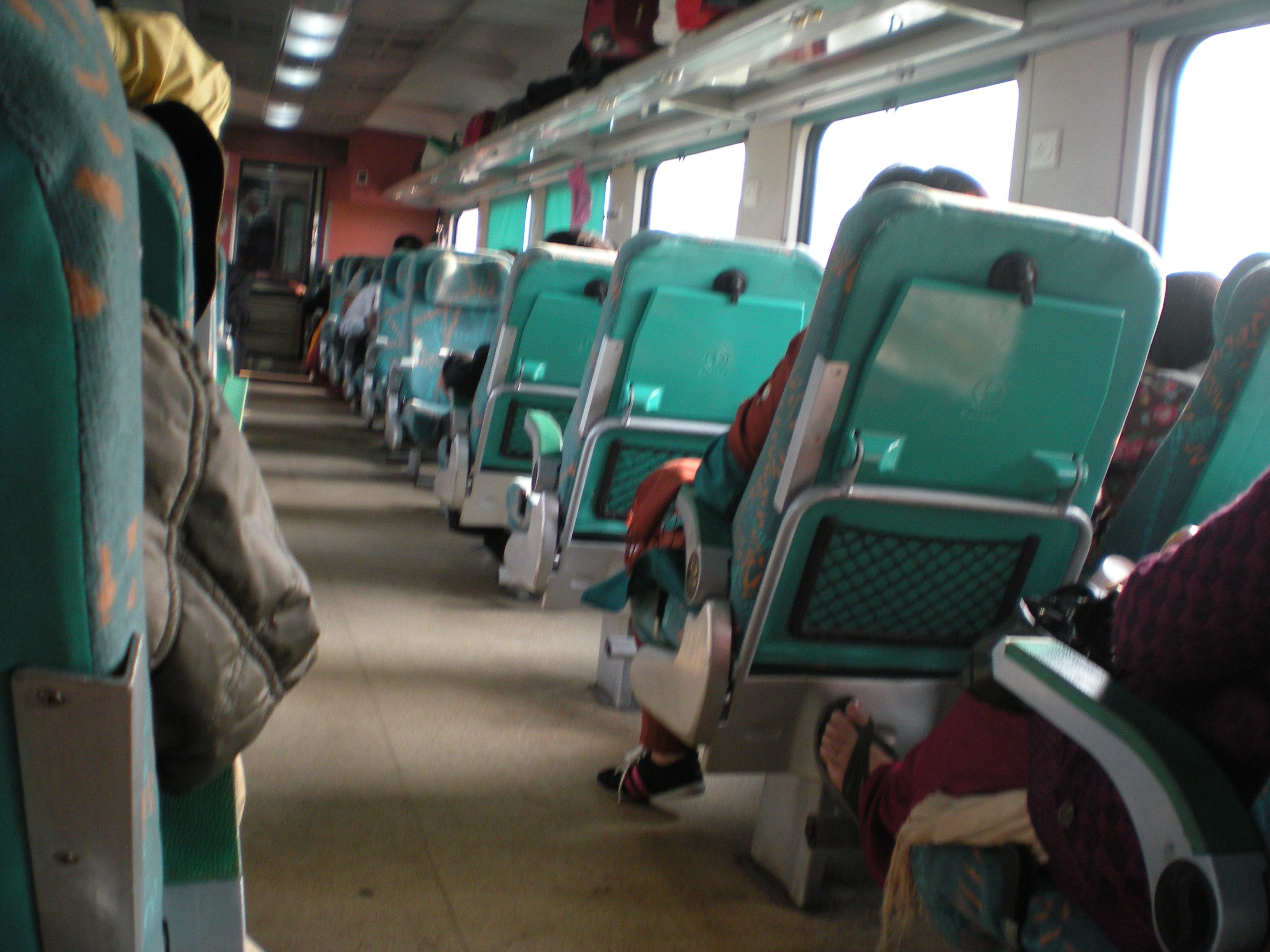 The picture is of interior of AC Executive Chair Car of Howrah - New Jalpaiguri Shatabdi.